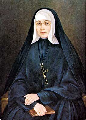 A painting of Canadian nun Eulalie Durocher, also known by her religious name Marie-Rose Durocher. It replicates an earlier painting by Théophile Hamel.